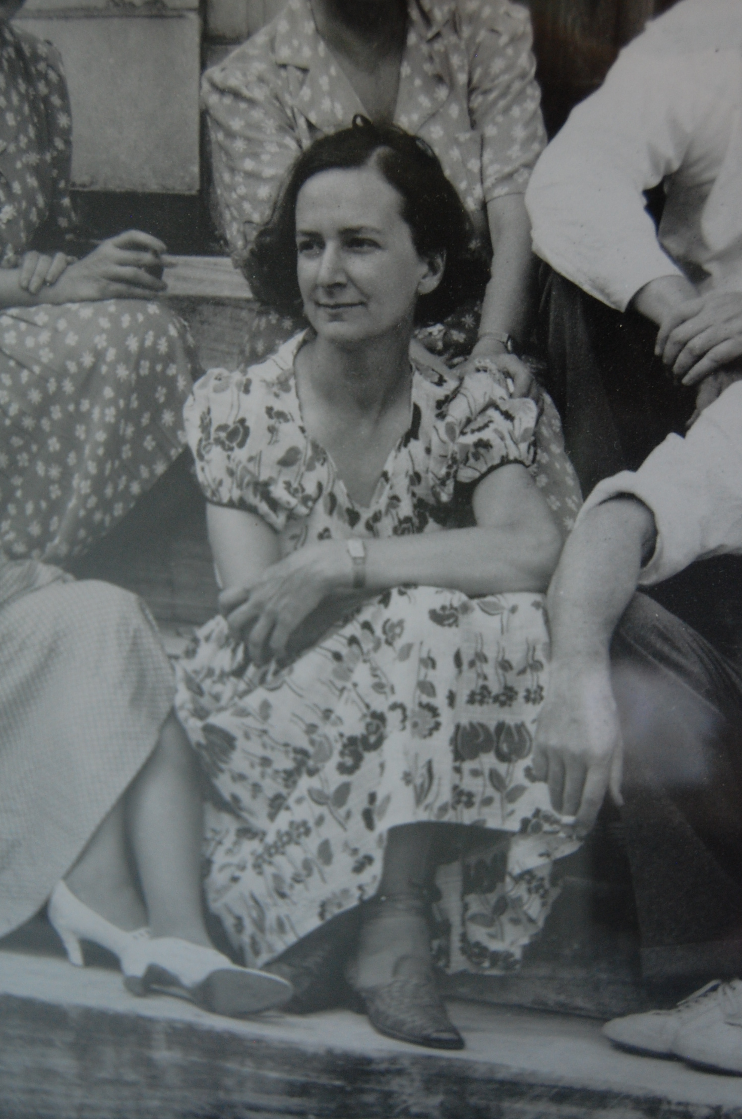 Bernadine Custer Sharp, c. 1950s, detail from a group photo of the founders of the Southern Vermont Art Center